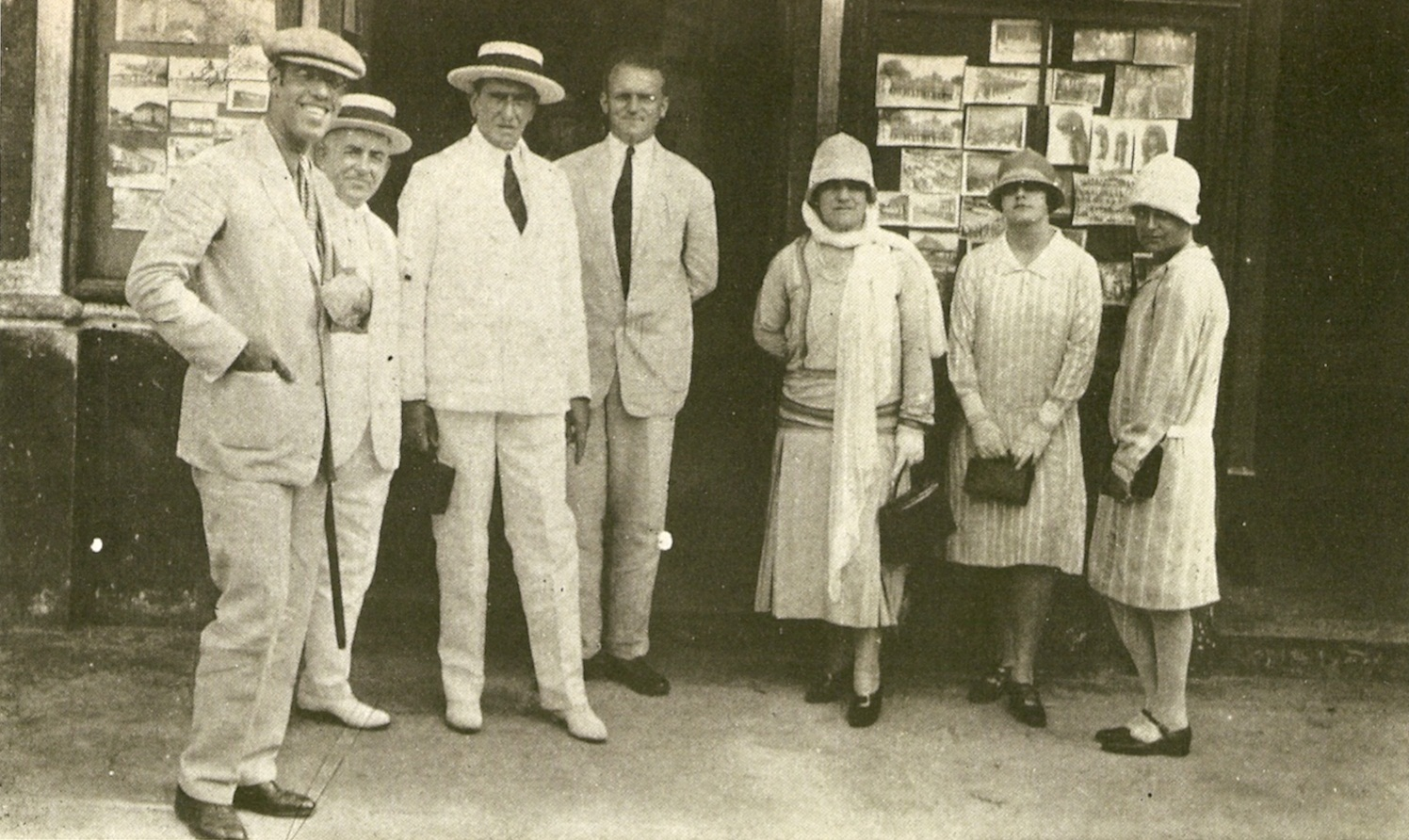 Brazilian poet Mário de Andrade (far left) during his travel through Amazon rainforest, 1927.